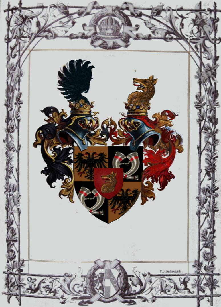 Naturalization and confirmation of an older Coat of arms from the Patent of nobility granted to Joseph Fenrich Edler von Gjurgjenovac by emperor Franz Joseph I (Vienna, 1913).